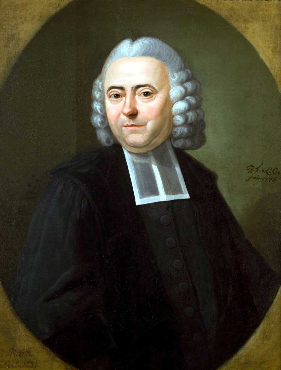 Jan Jacob Schultens also: Johann Jakob Schultens (1716-1778) Dutch Reformed theologian and orientalist